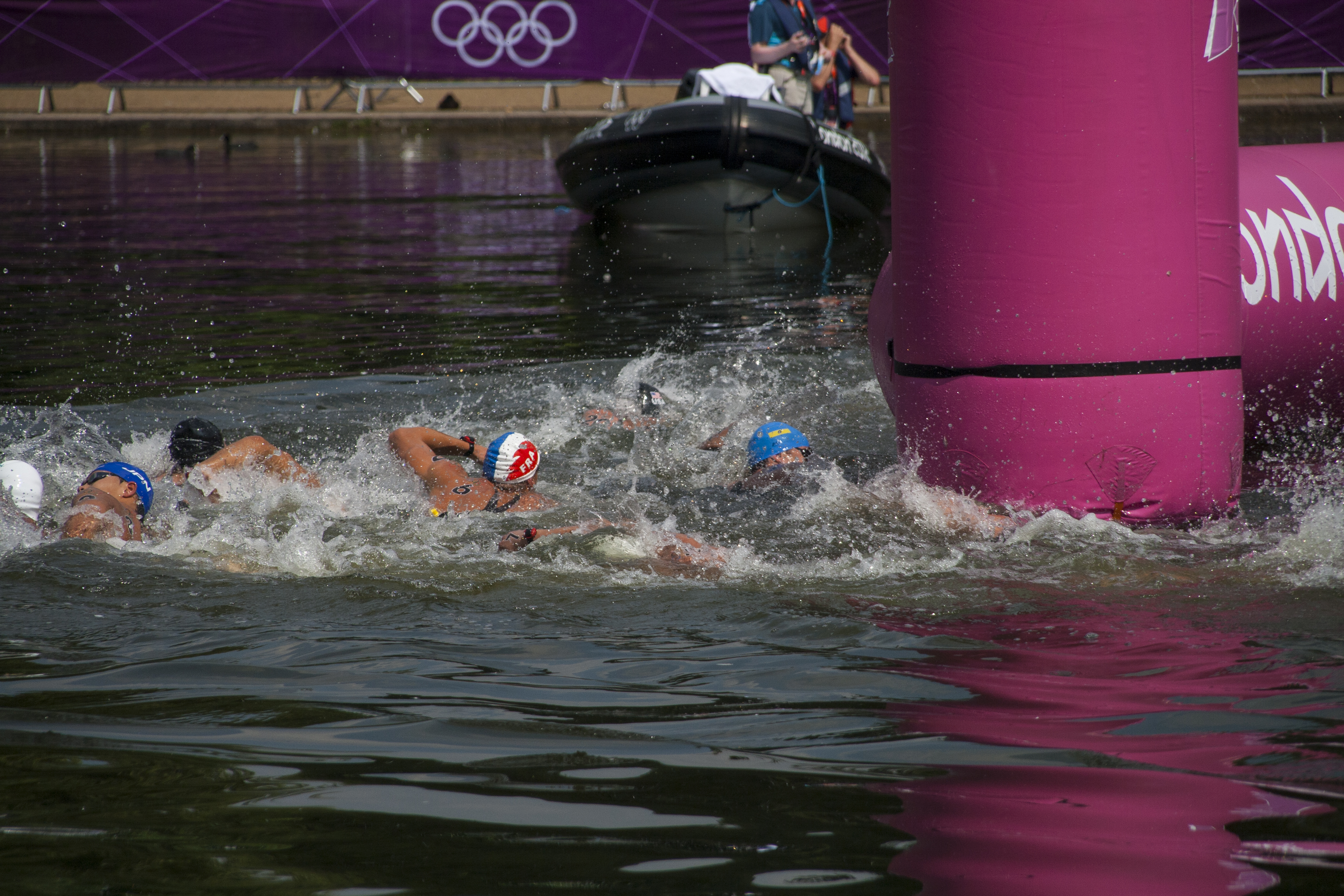 The men's 10 kilometre marathon swim at the 2012 Olympic Games in the Serpentine at Hyde Park.